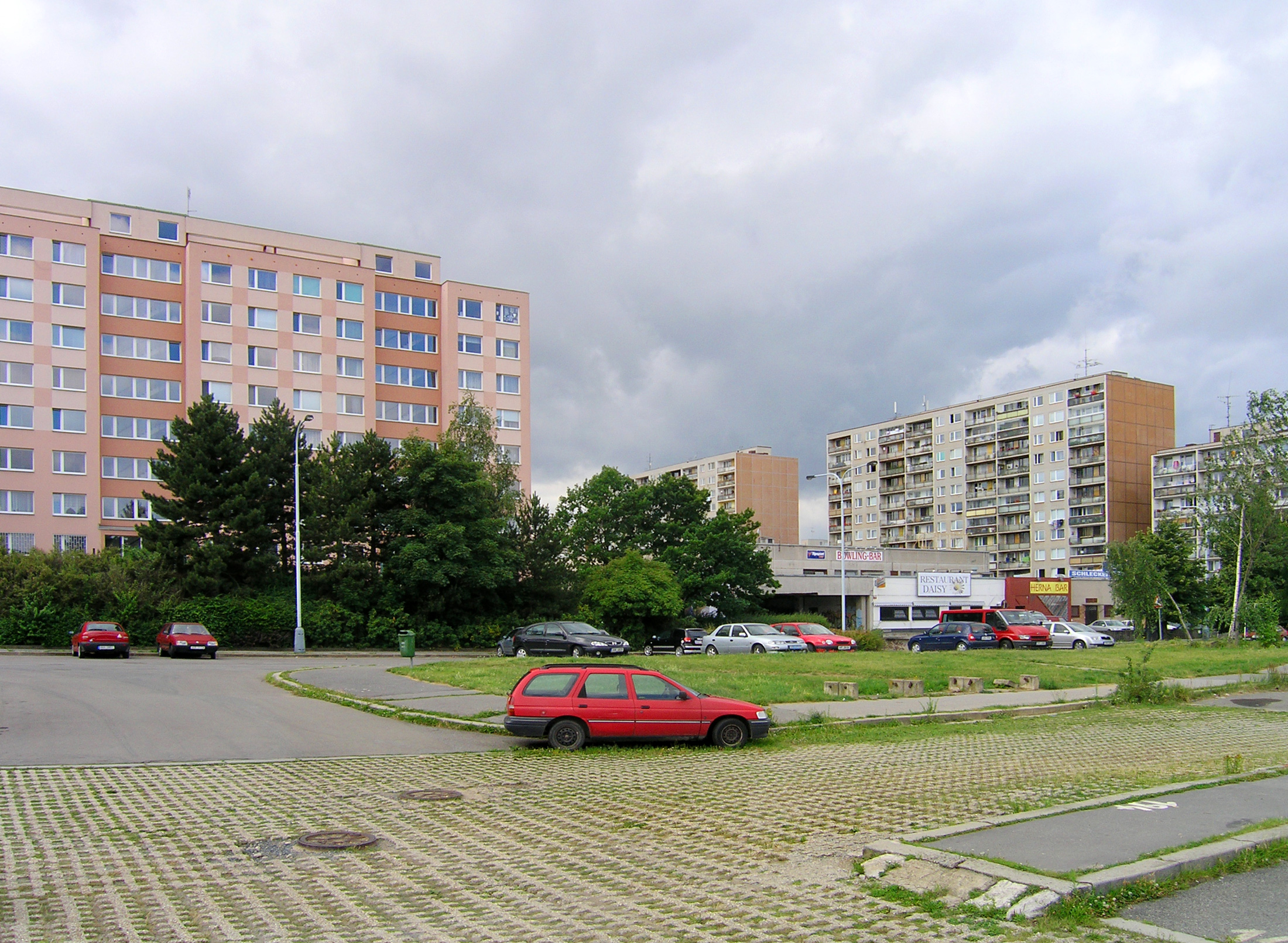 Vojtíškova street in Chodov, Prague